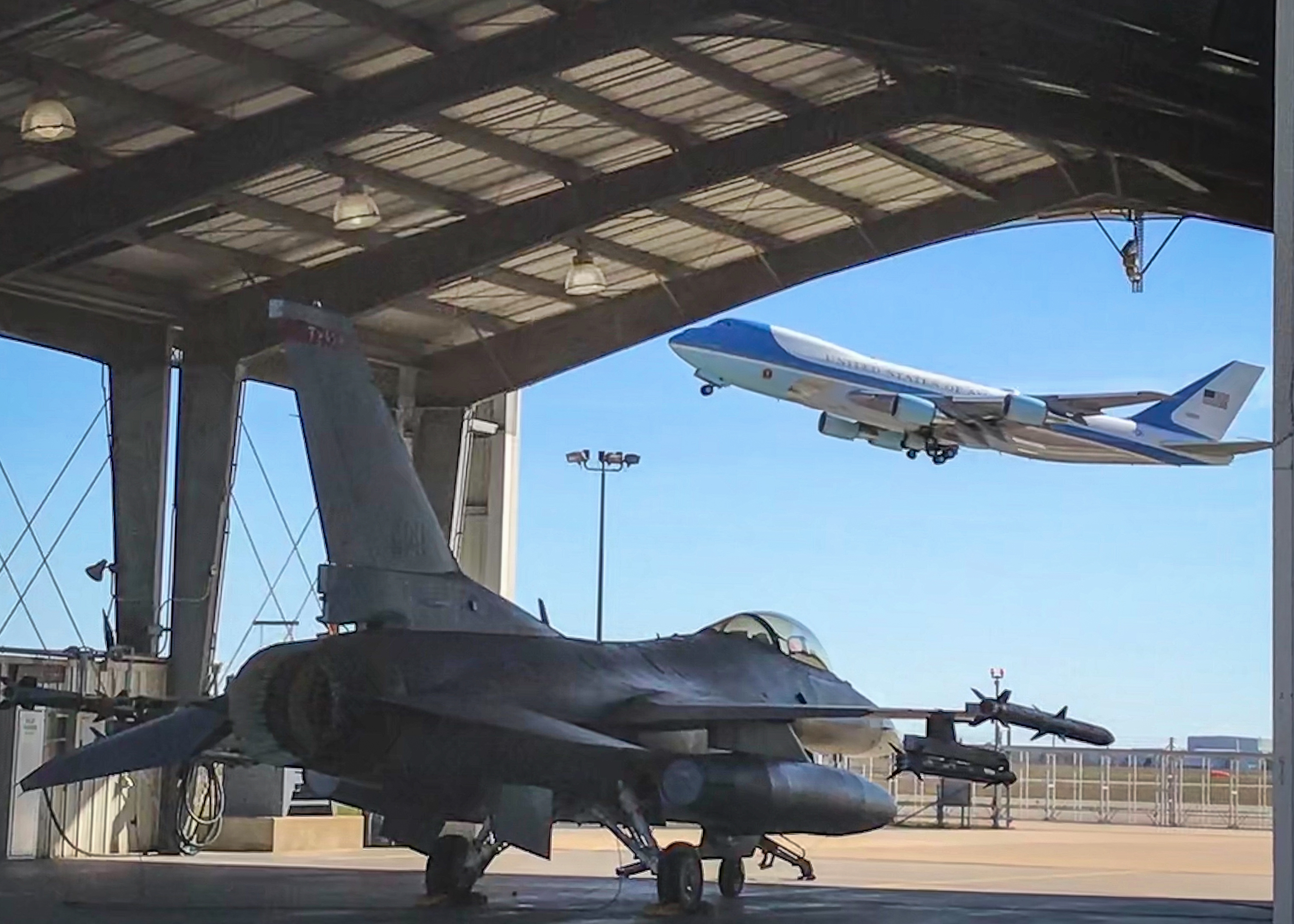 A Tulsa Air National Guard alert jet stands ready during the departure of Air Force One carrying the casket of former President George H.W. Bush onboard Dec. 3, 2018, at Ellington Field Joint Reserve Base, Houston, Texas. Bush died on November 30, 2018, at the age of 94, he has the distinction of being the longest-lived president in American history. (U.S. Air National Guard courtesy photo by Maj. Nicholas Moore)